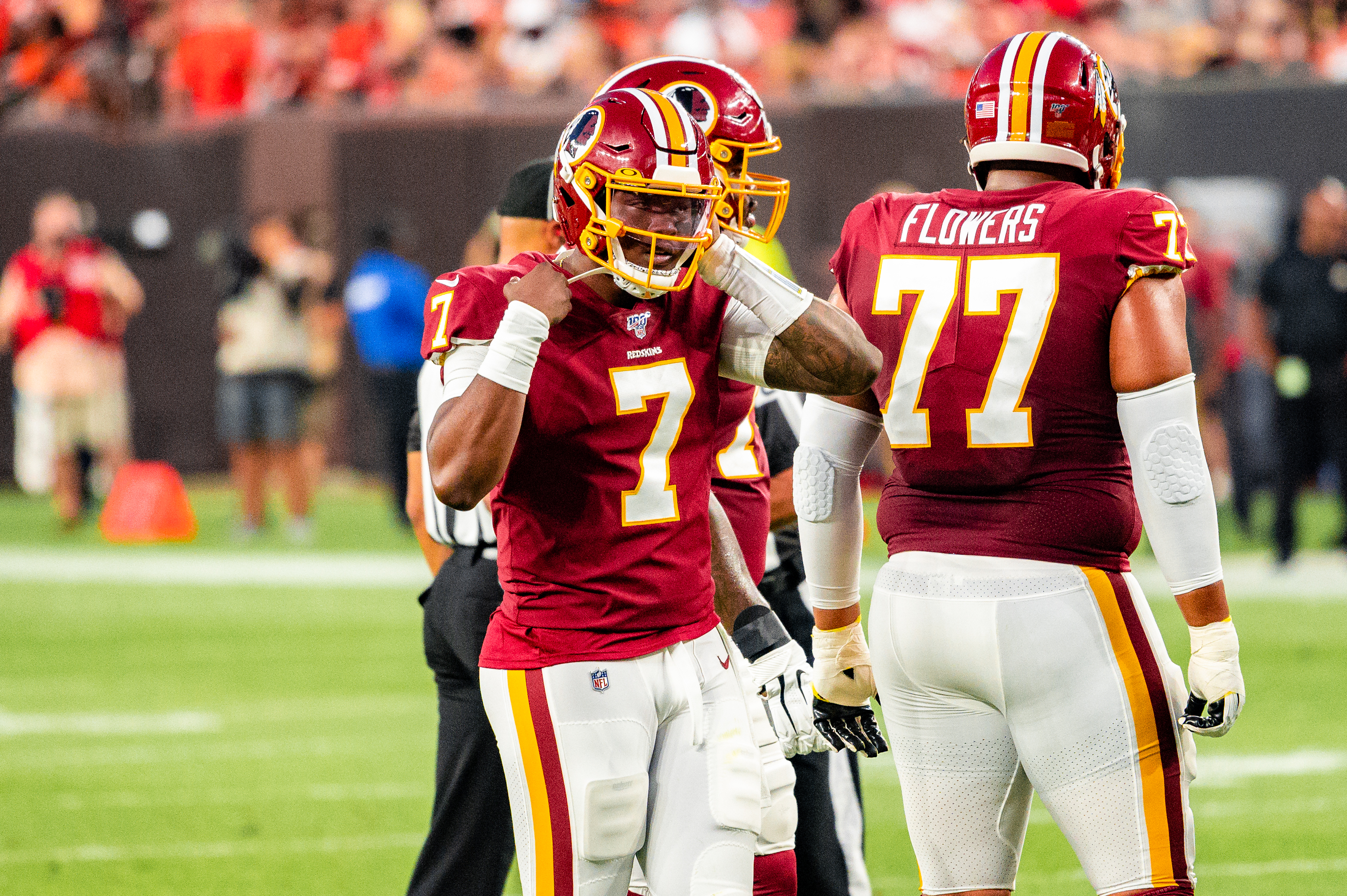 Washington Redskins players, Dwayne Haskins and Ereck Flowers, in a preseason game against the Cleveland Browns on August 8, 2019